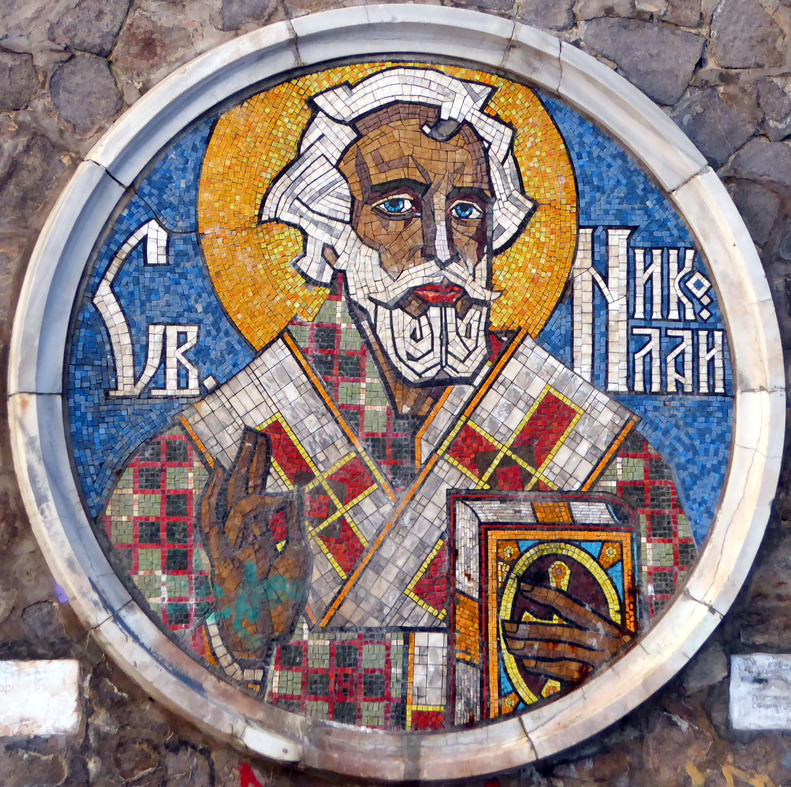 Varna Seaport Lighthouse